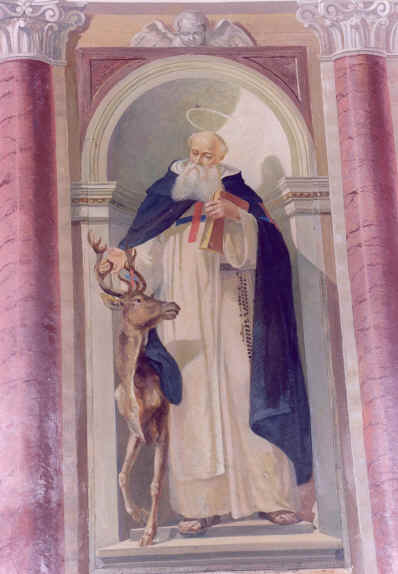 Felix of Valois and cerf